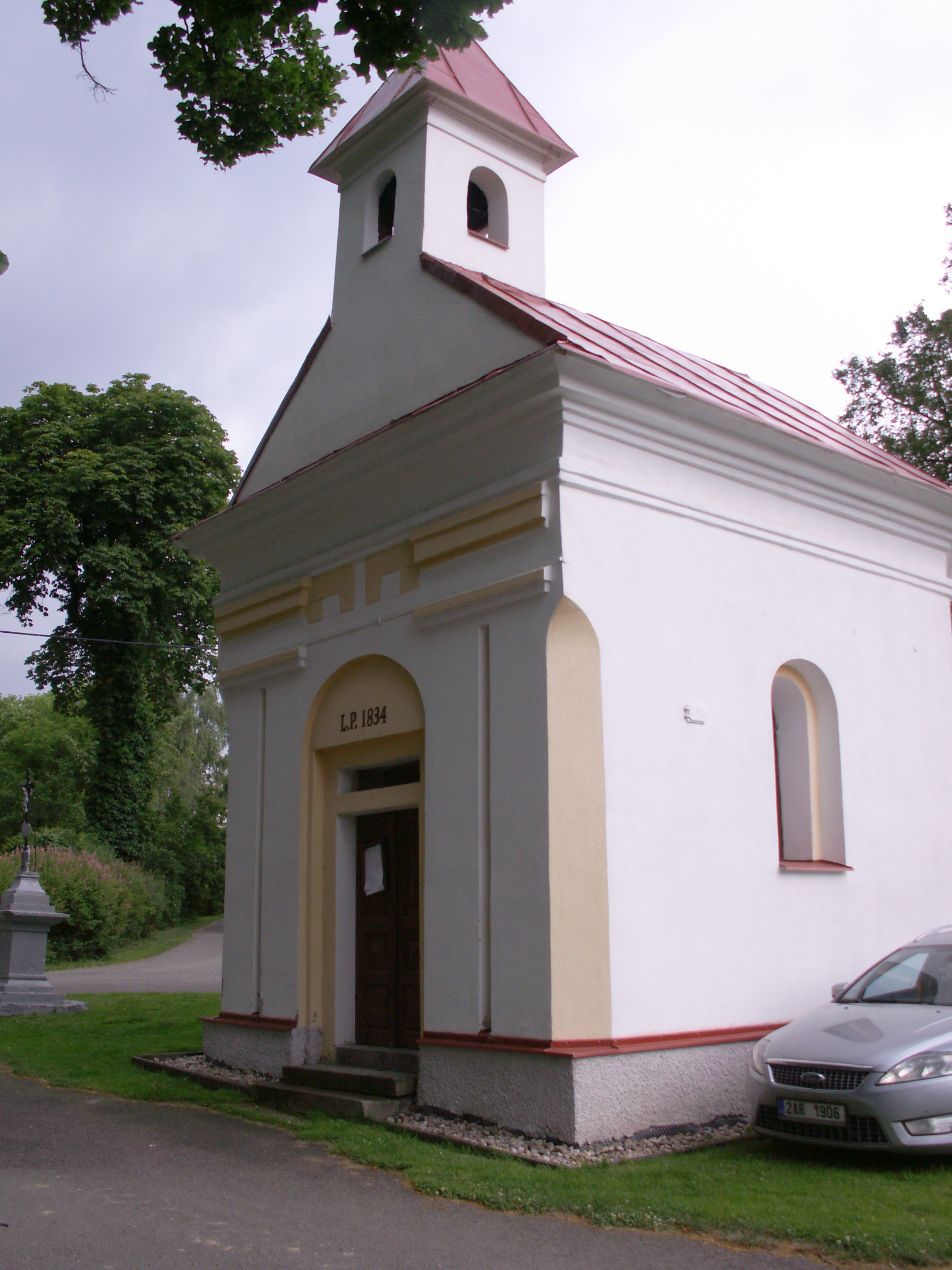 KONICA MINOLTA DIGITAL CAMERA, obec Slavětín, okres Havlíčkův Brod, kraj Vysočina